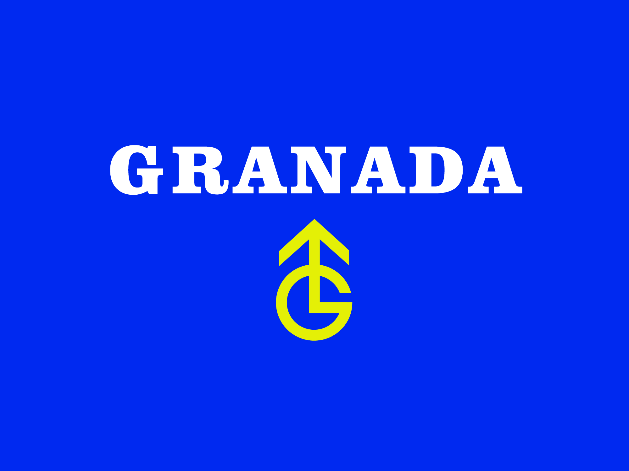 Logo of British television channel Granada Television, in use 1969-1986